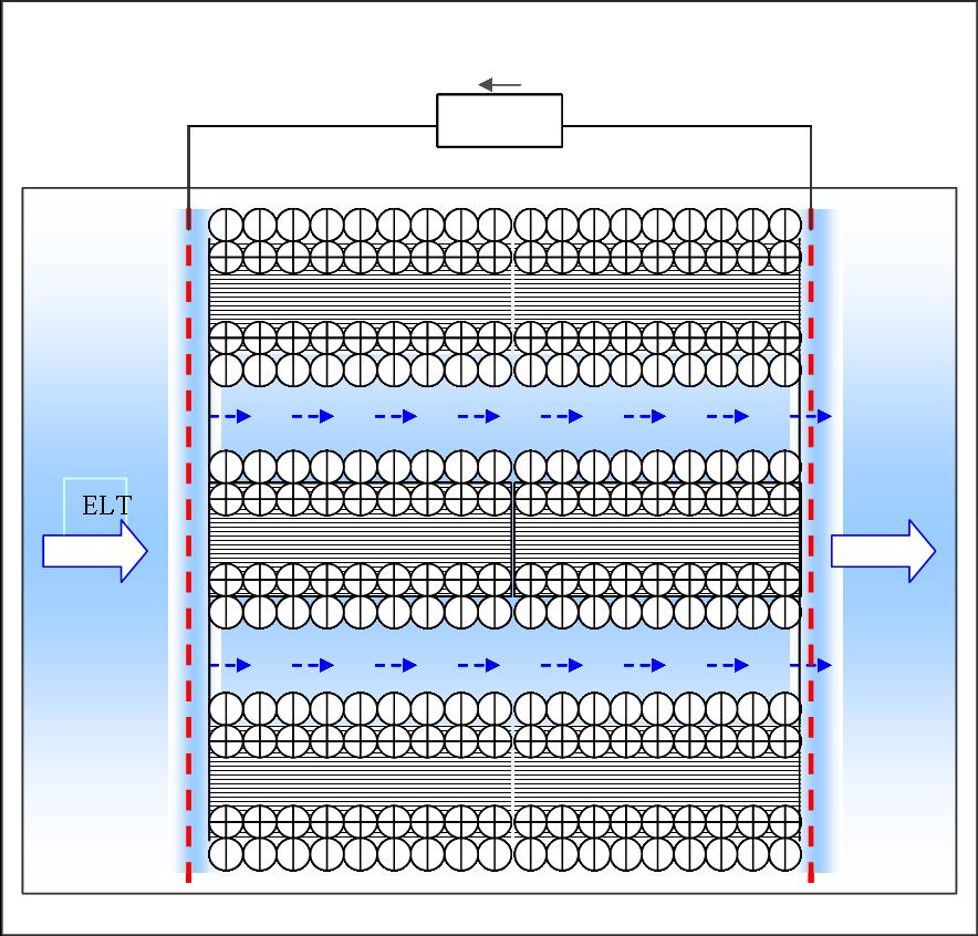 Electrokinetic molecular power system. Describes the structure and principle of operation of the system